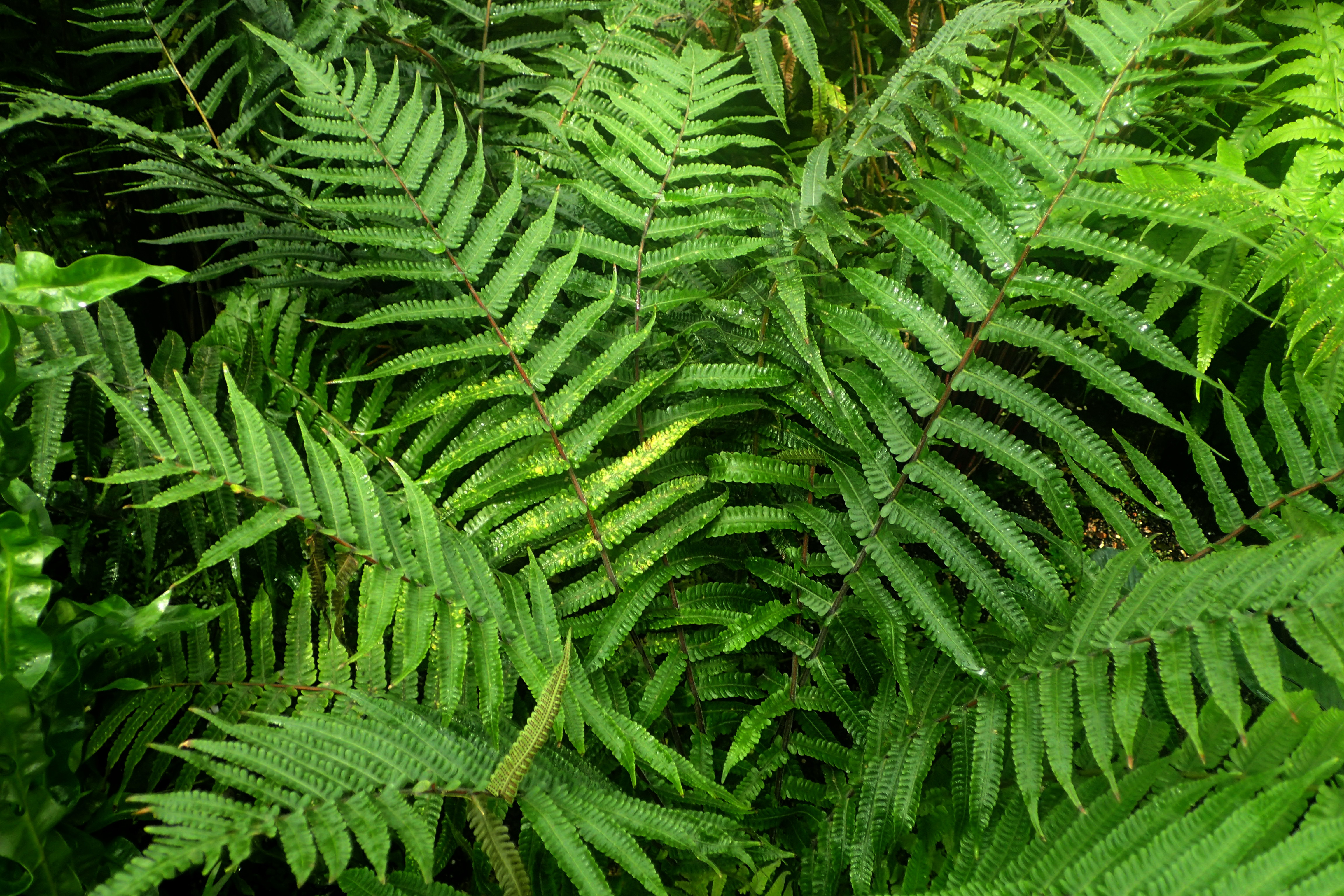 Thelypteris noveboracensis at Garfield Park Conservatory, Illinois